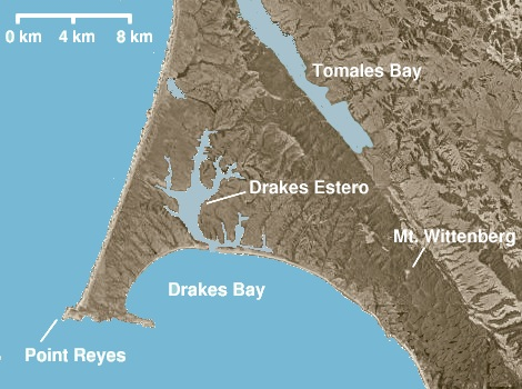 Drakes Bay and Drakes Estero © 2004 Matthew Trump